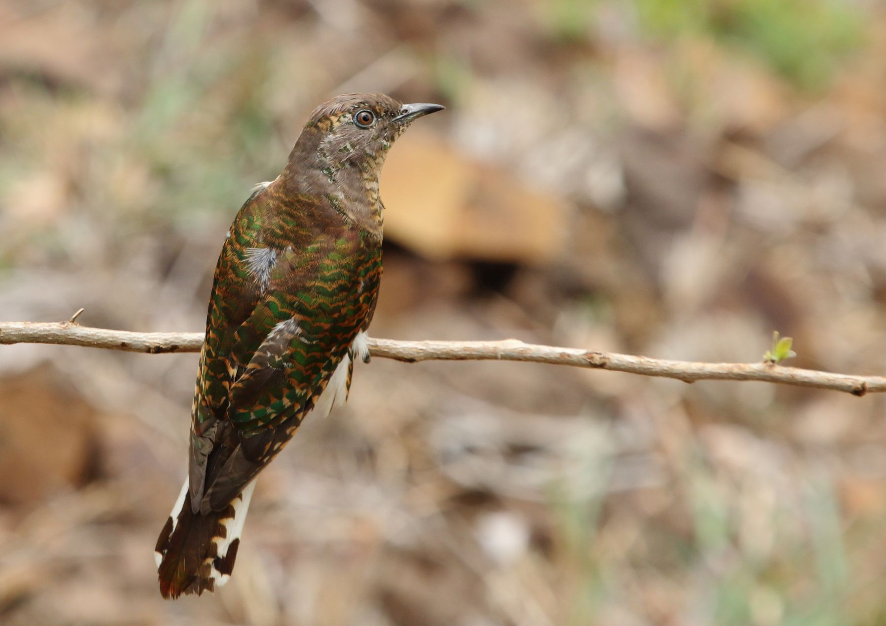 Female Klaas's Cuckoo Chrysococcyx klaas at Ngwenya Lodge, Mpumalanga, South Africa.